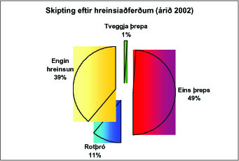 Chart